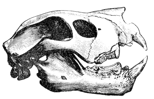 Fig. 74.—Thylacoleo carnifex. Side view of skull. (After Flower.)